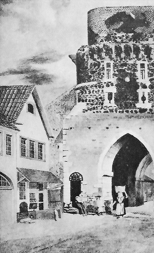 Aquarelle (1821) of the former "Kölner Tor".The mediaeval Gate in Bonn was demolished in 1826